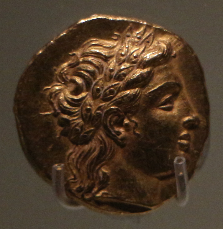 Ancient Greek coins in the Calouste Gulbenkian Museum